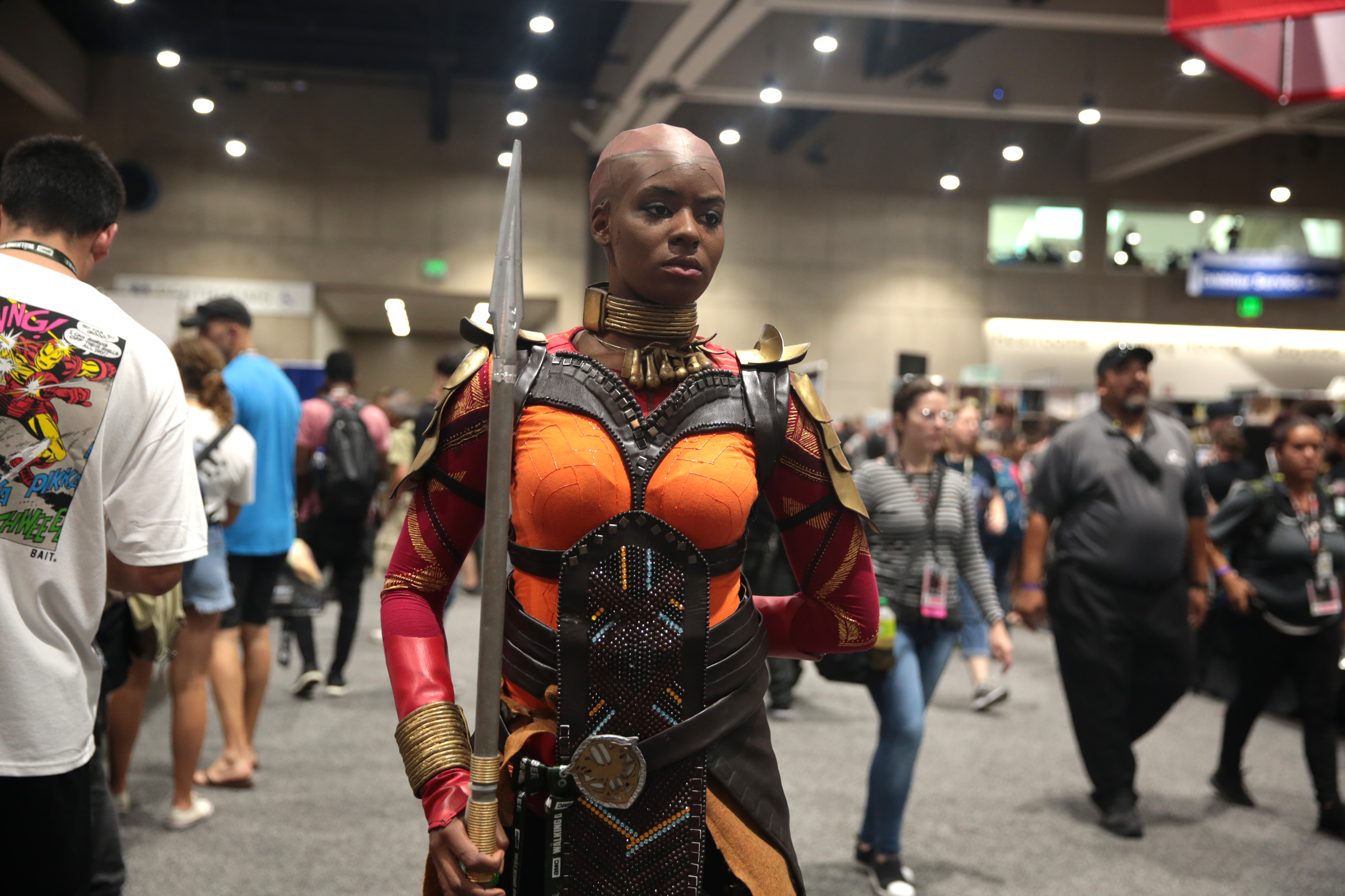 Okoye of Black Panther cosplayer at the 2018 San Diego Comic-Con International at the San Diego Convention Center in San Diego, California.